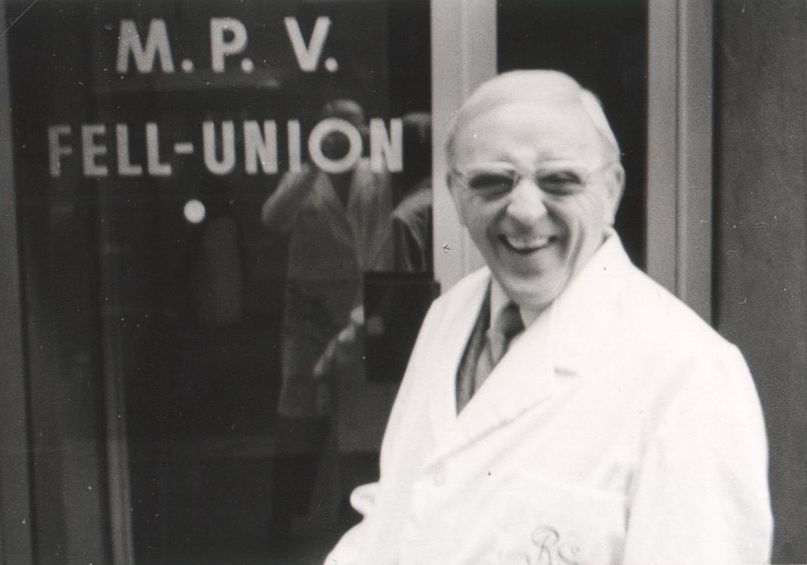 One of the photographs taken around or relating to the fur trade center Niddastrasse, Frankfurt am Main, Germany.